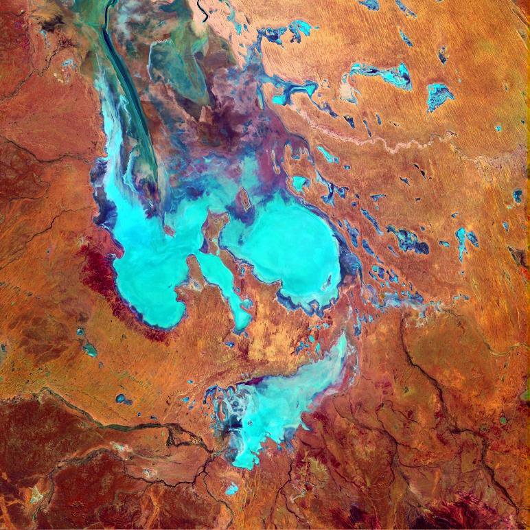 A false colour picture. The purpose of NASA's Earth Observatory is to provide a freely-accessible publication on the Internet where the public can obtain new satellite imagery and scientific information about our home planet. The focus is on Earth's climate and environmental change. In particular, we hope our site is useful to public media and educators. Any and all materials published on the Earth Observatory are freely available for re-publication or re-use, except where copyright is indicated. We ask that NASA's Earth Observatory be given credit for its original materials.